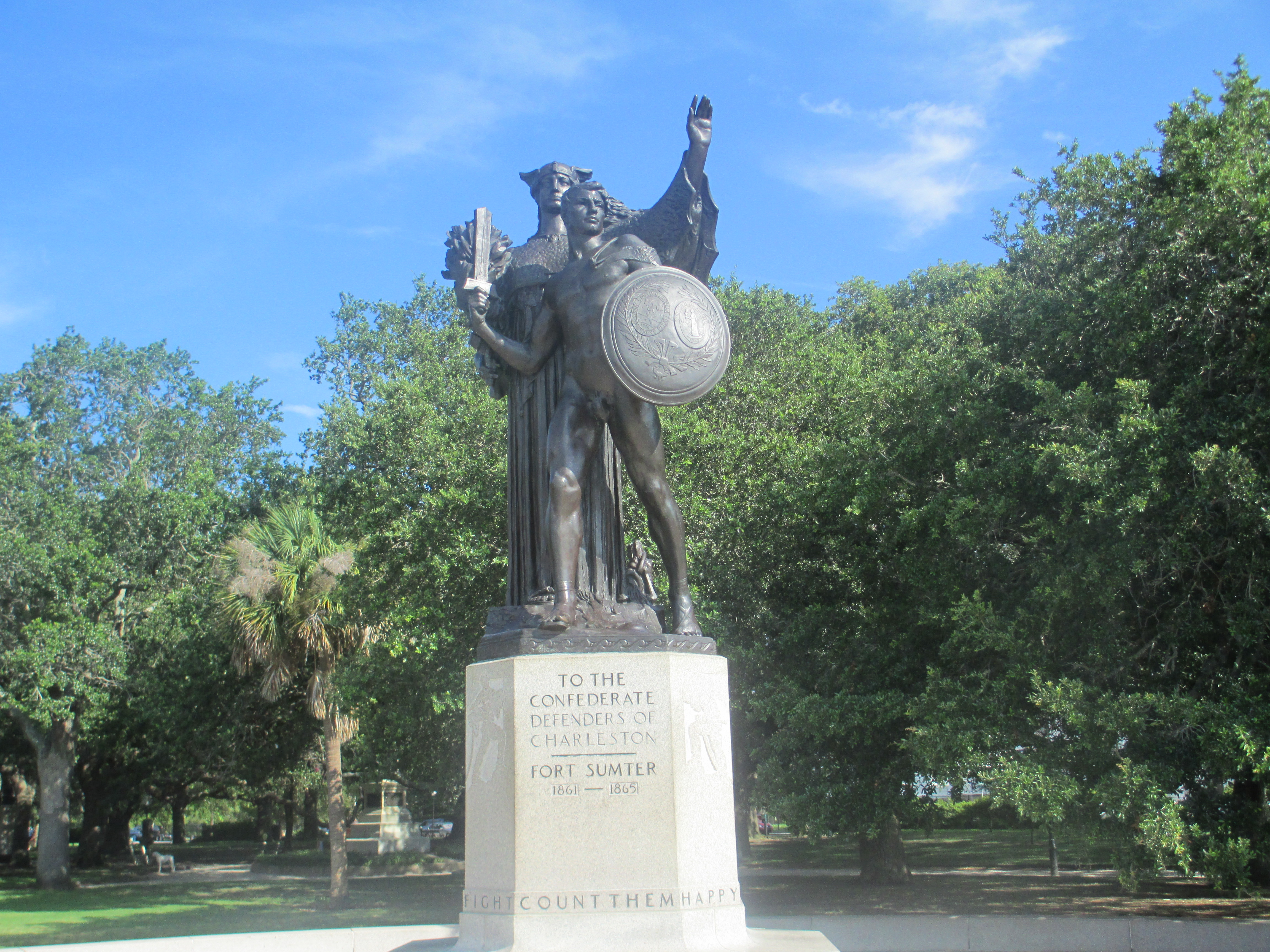 I took photo of Daughters of Confederacy monument with Canon camera in The Battery of Charleston.